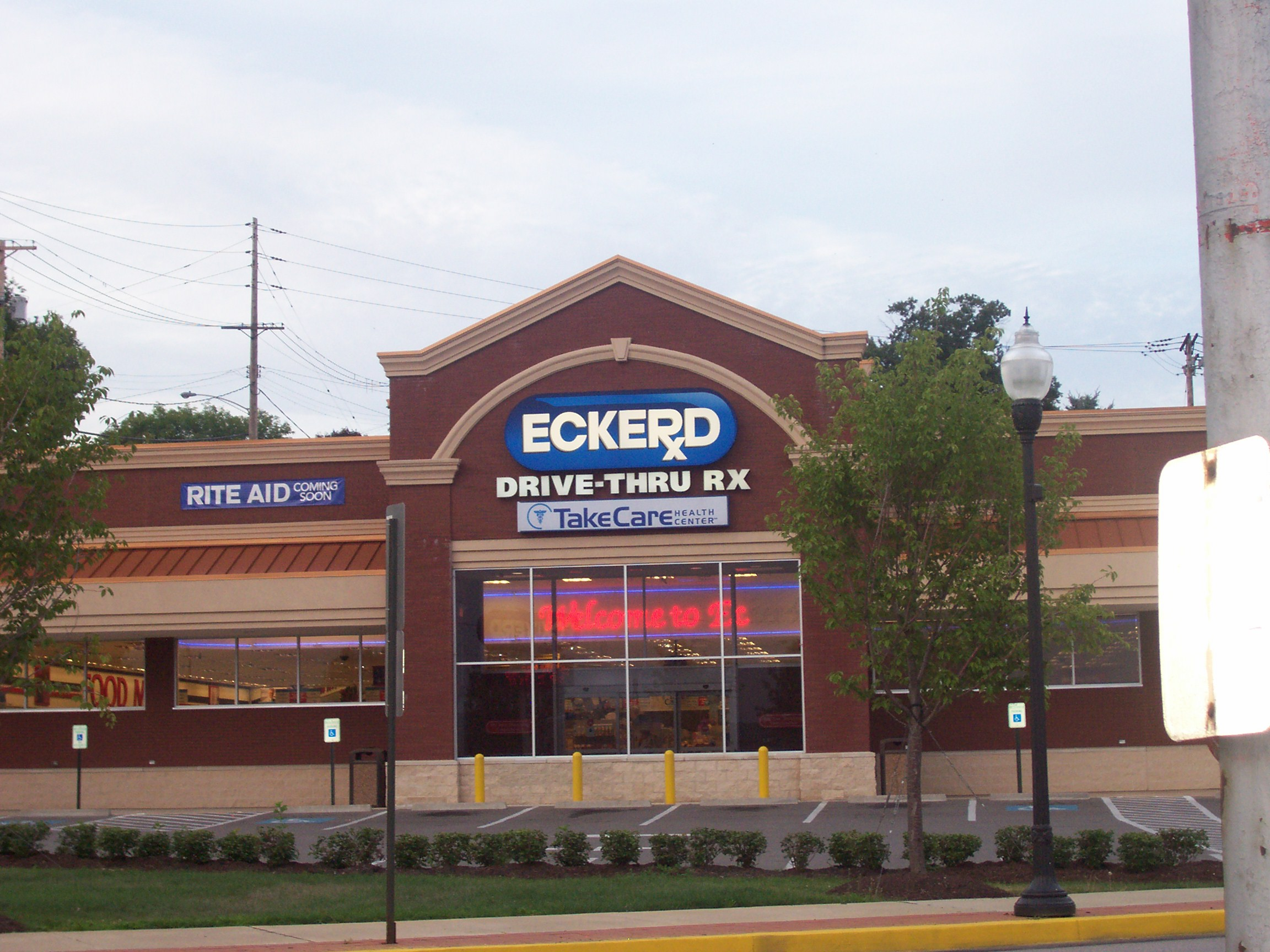 A pic of an Eckerd location in Rochester, PA I took myself on August 4th, 2007, to display the "Rite Aid Coming Soon" sign. On a side note, part of the building was built on the site of the childhood home of Christina Aguilera. Many residents of Rochester can verify this.